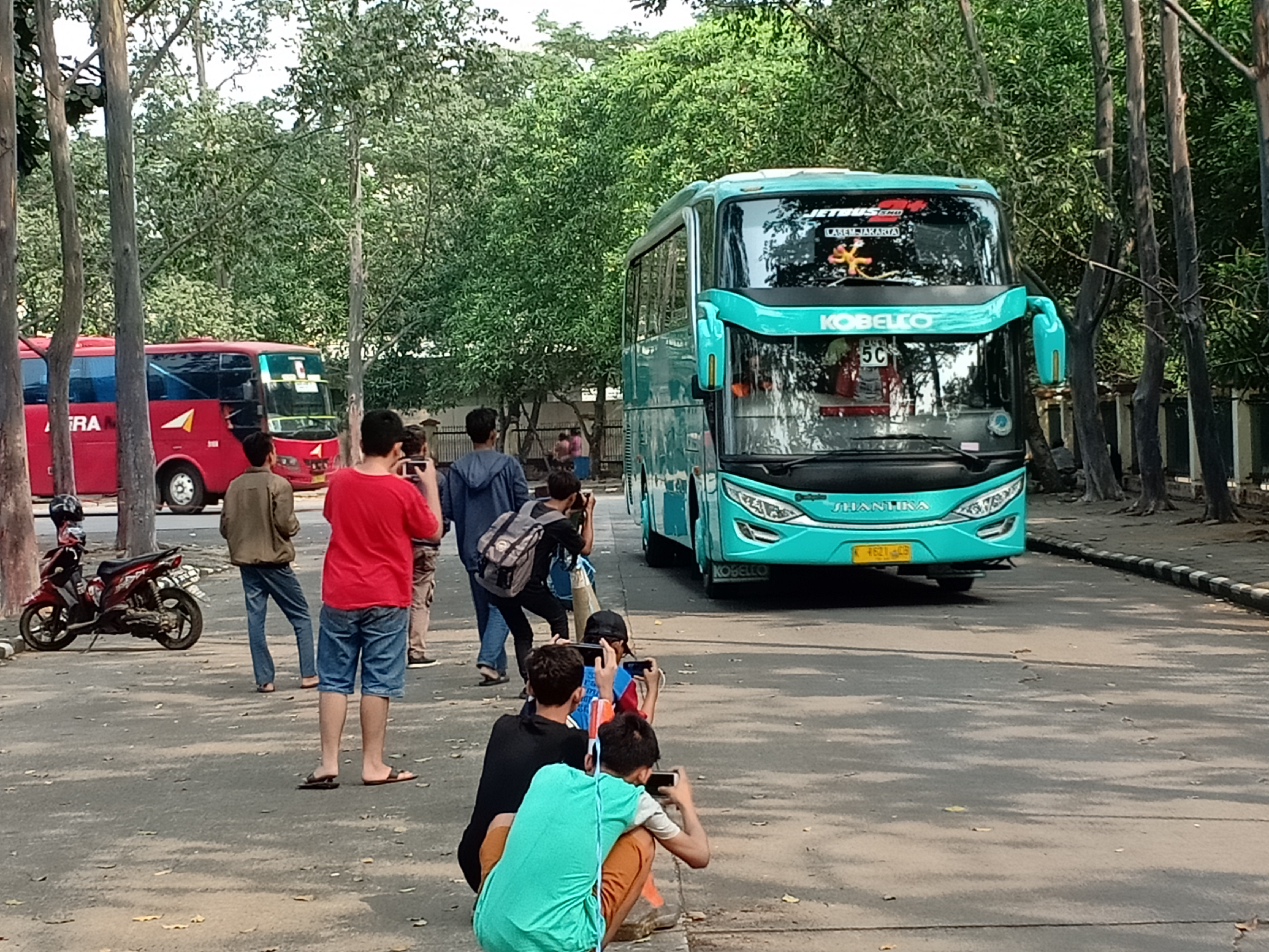 An intercity buses owned by Po New Shantika along with some of teenagers bus spotters